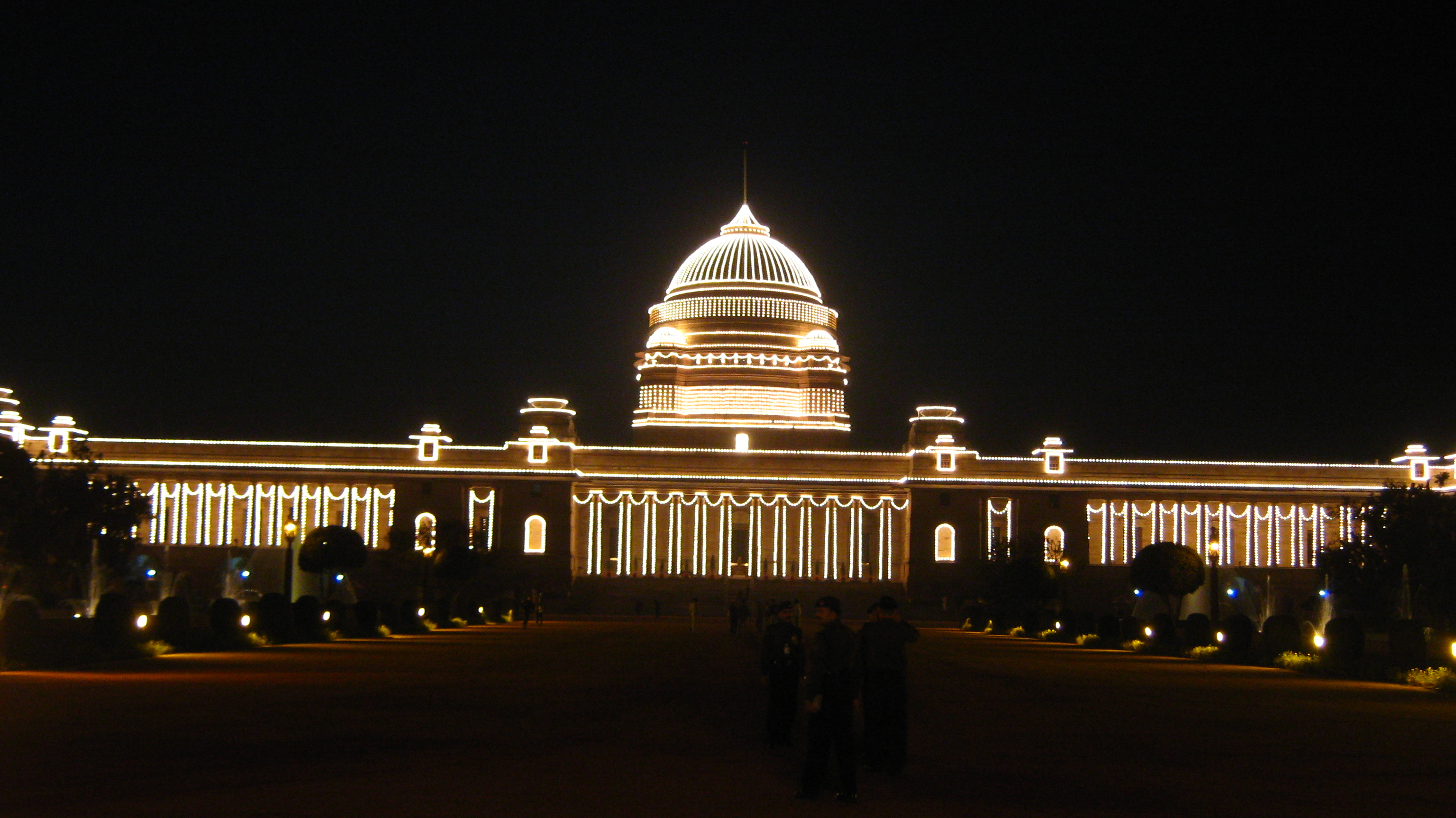 Rashtrapati Bhawan illuminated on 26-29 Jan, every year on occasion of Indian Republic Day Anniversary.